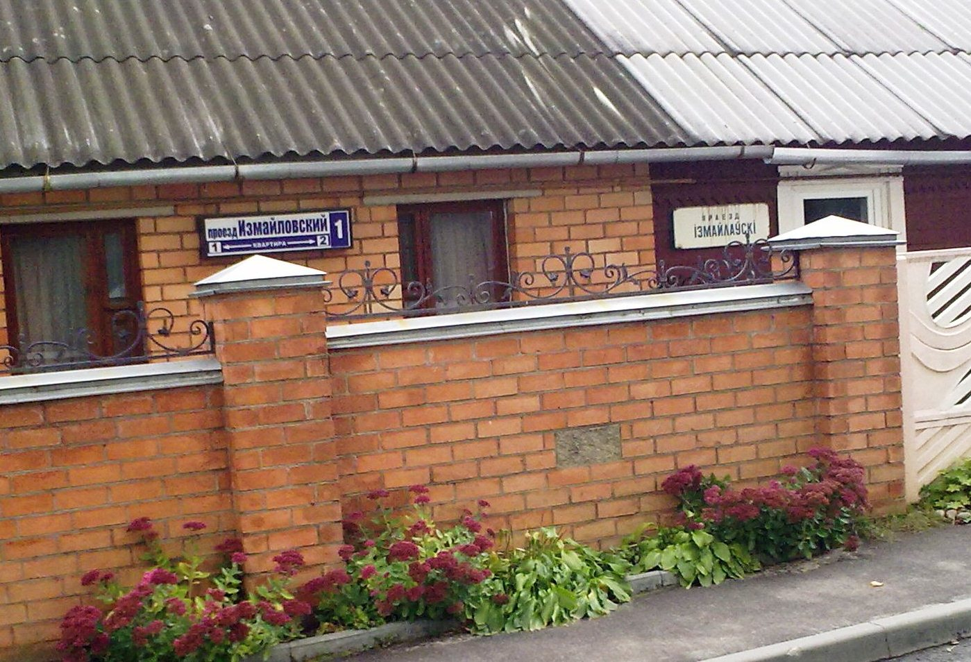 Evidence of russification in Minsk, capital of Belarus.